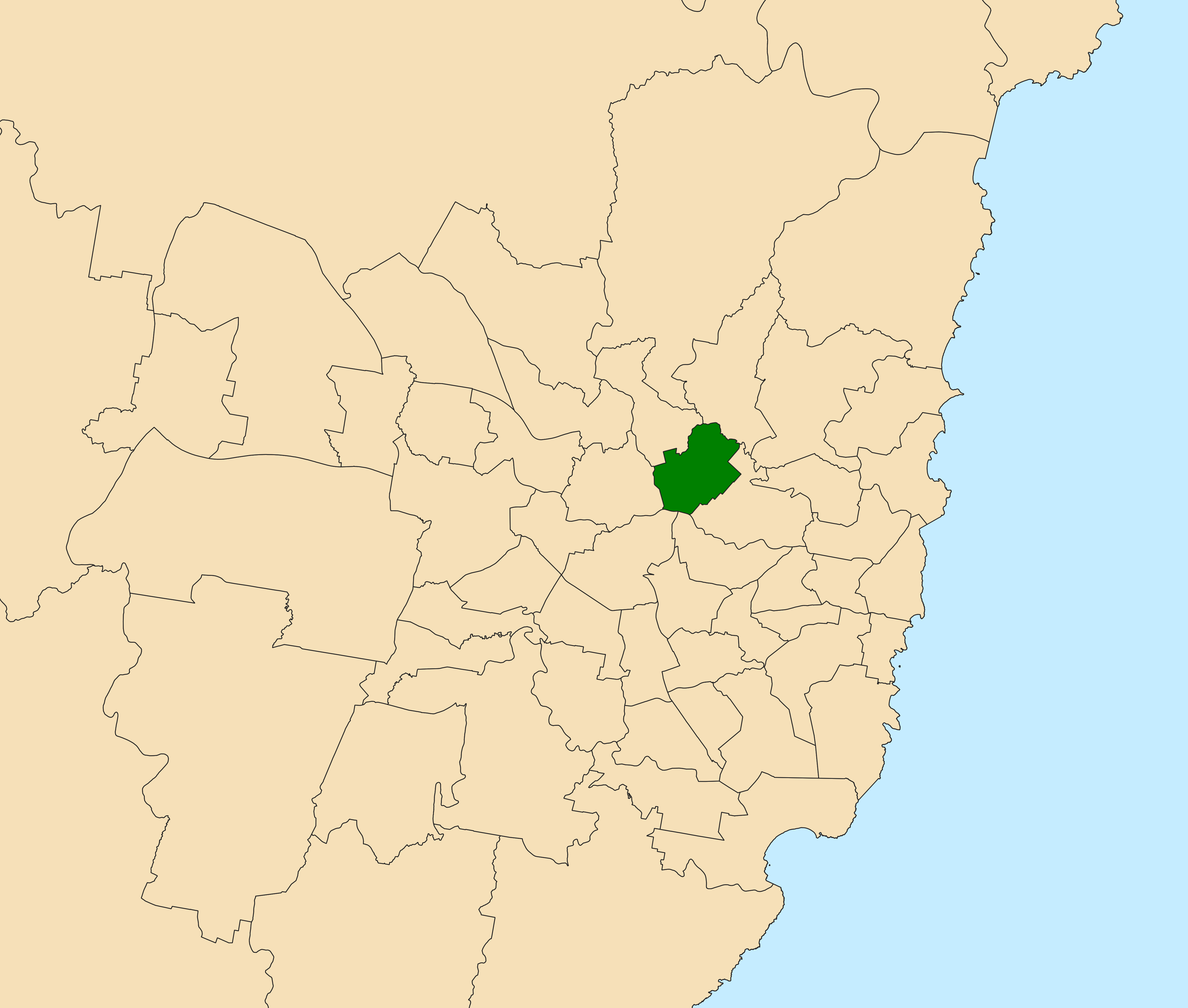 Location of the state electoral district of Ryde (dark green) in the metropolitan Sydney area as of the 2019 New South Wales state election. Incorporates or developed using Administrative Boundaries ©PSMA Australia Limited licensed by the Commonwealth of Australia under Creative Commons Attribution 4.0 International licence (CC BY 4.0).